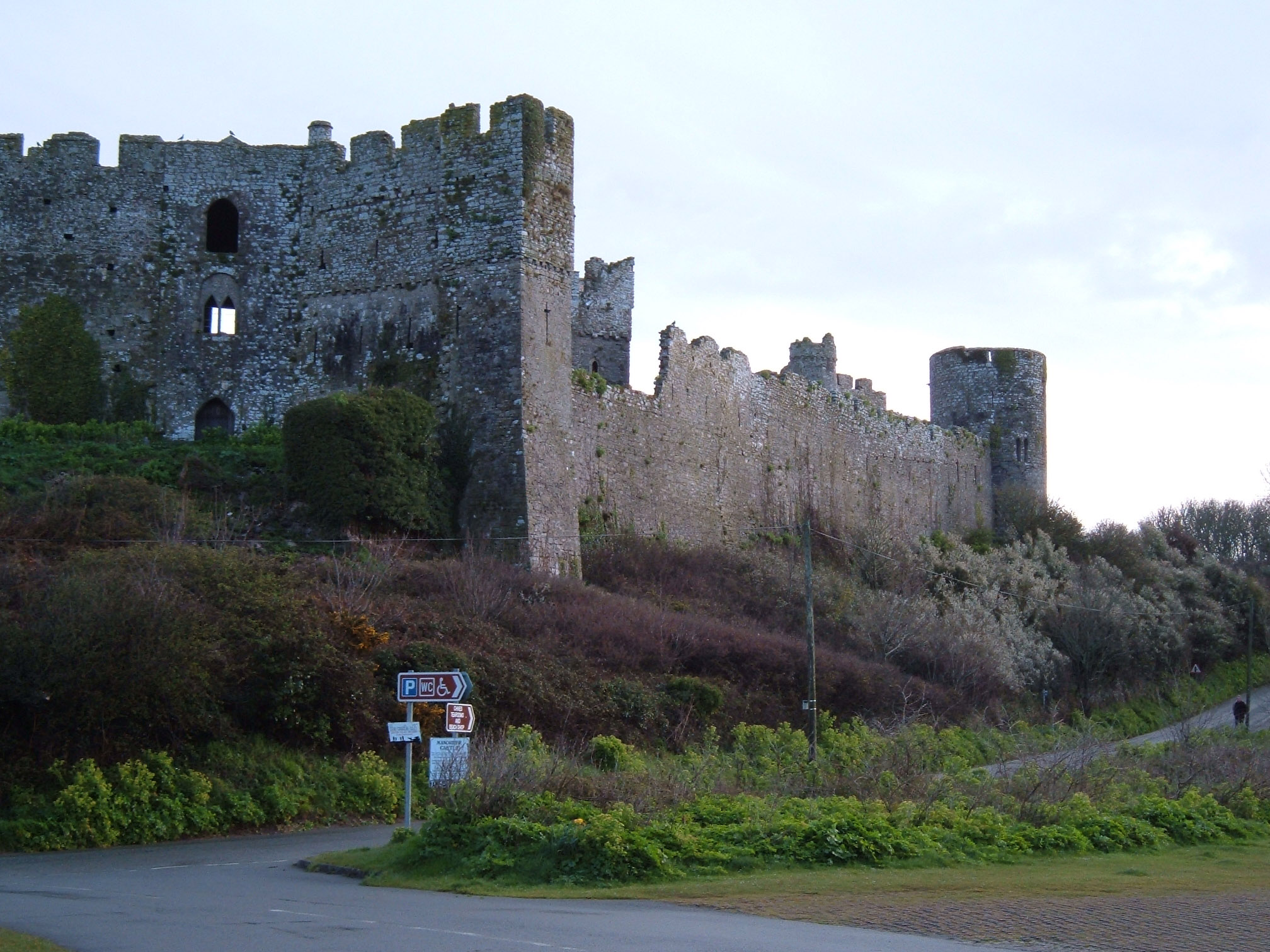 Another pic of Manorbier Castle, but including the round turret.